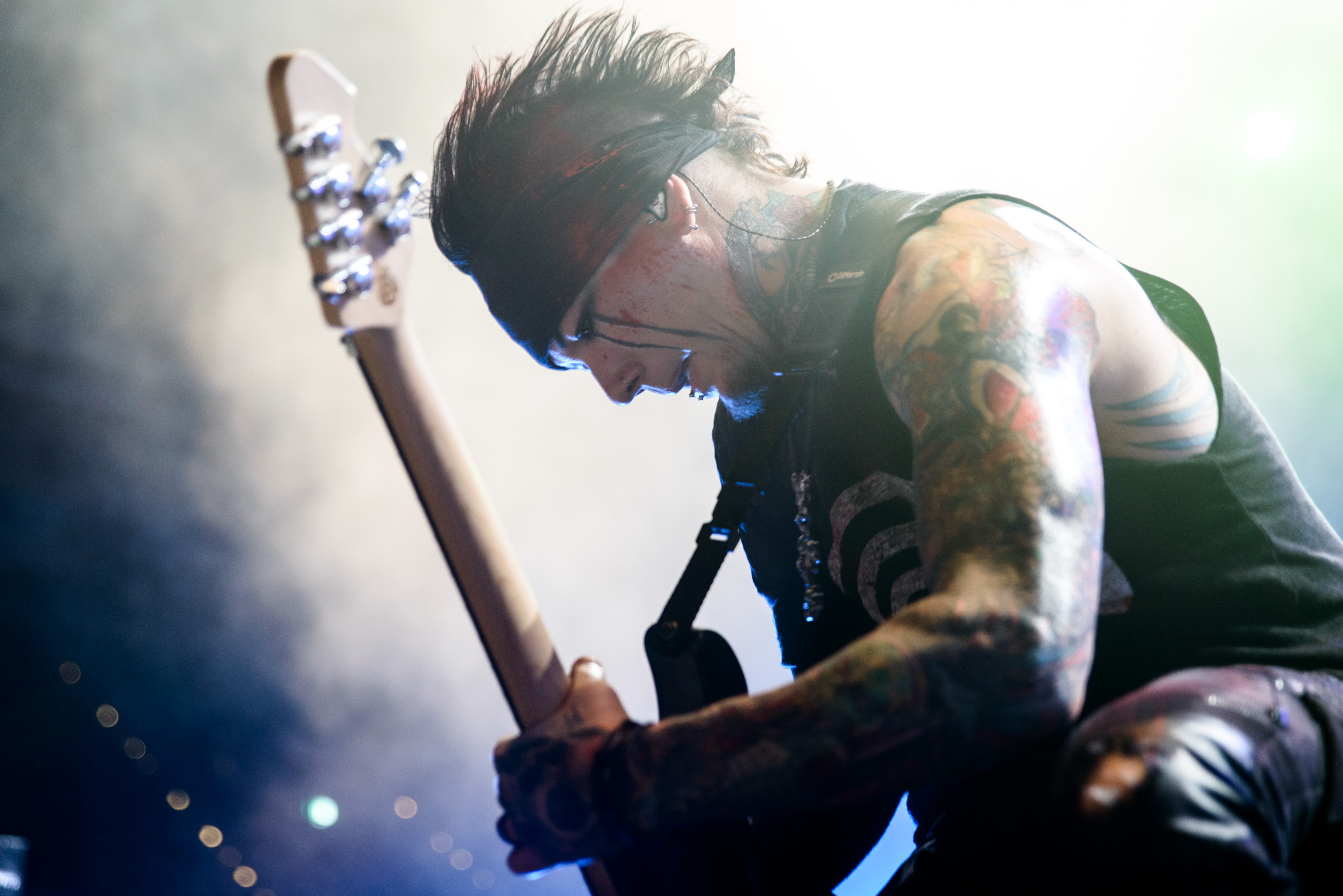 Sixx:A.M. @ Rock im Park 2016